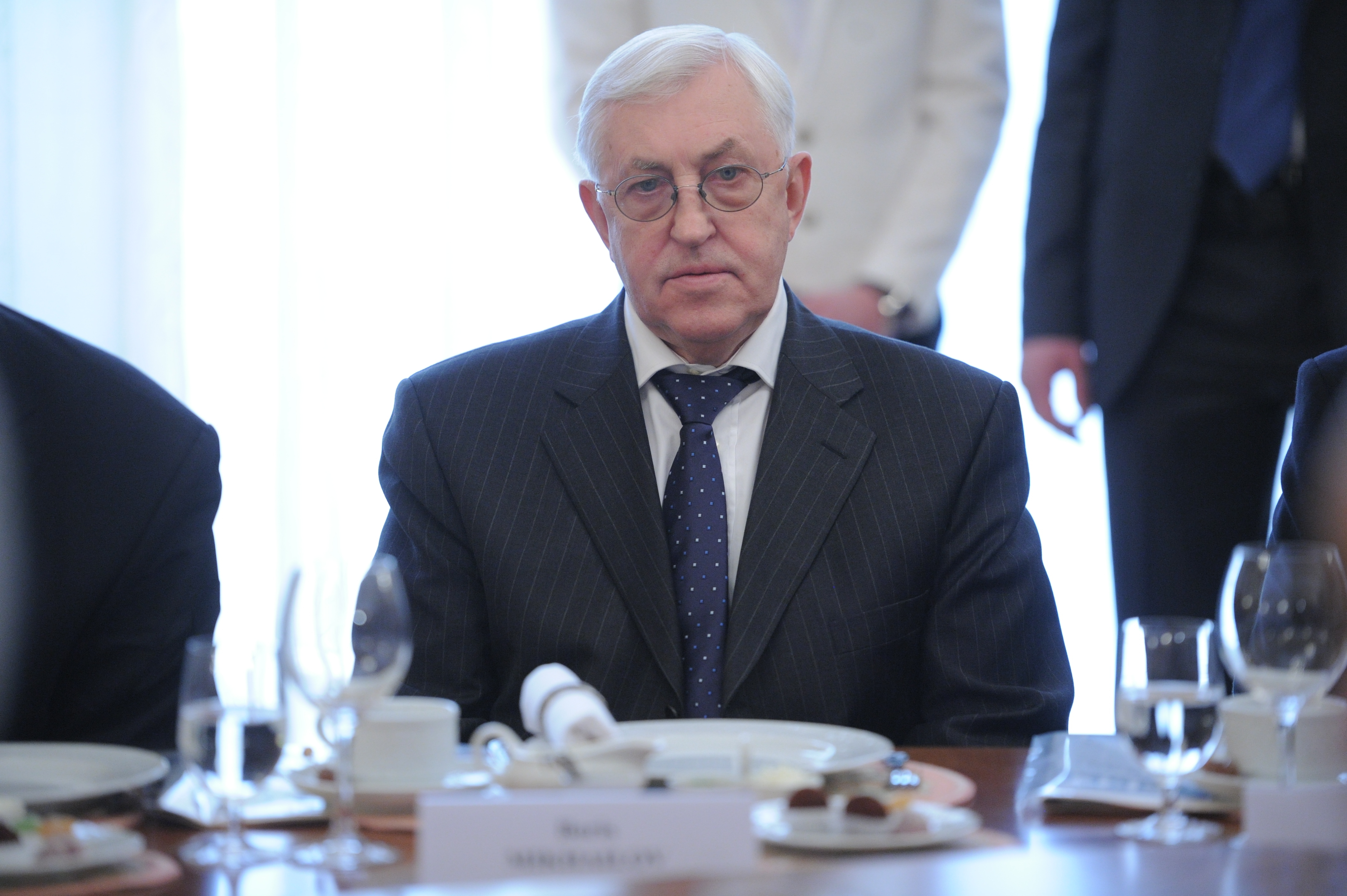 Soviet centre Boris Mikhailov